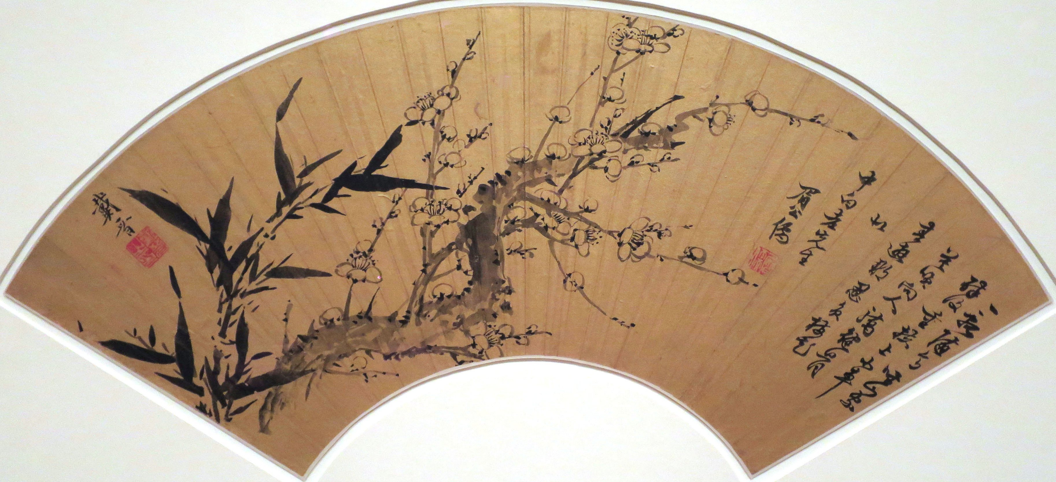 Plum Blossoms and Bamboo by Chen Jiru, 17th century, ink and gold on paper, Honolulu Museum of Art, accession 2476.1